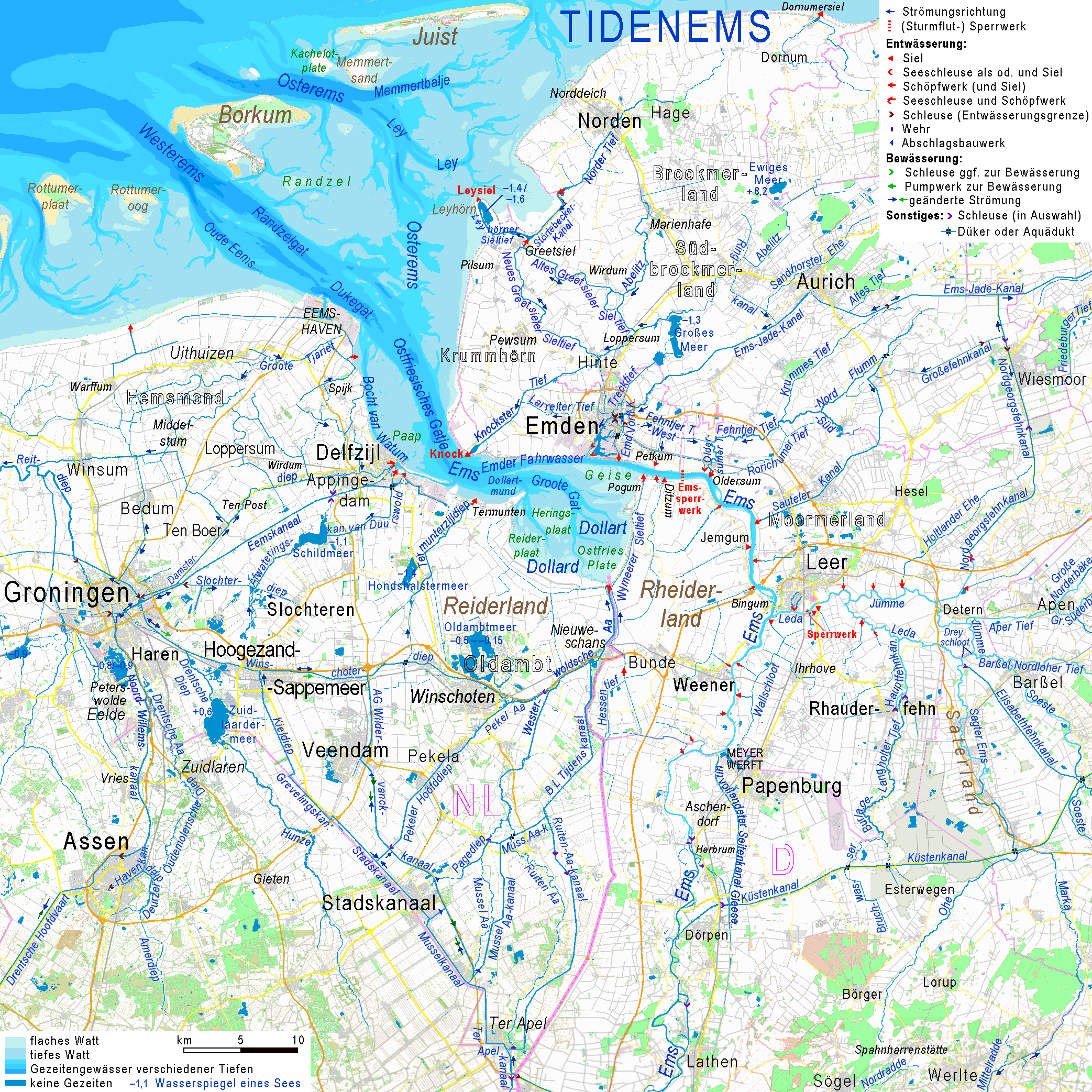 Estuary of river Ems; two levels of mudflats and four ground levels of tidal waterbodies distingushed by colour, different colour for waterbodies separated from tidal influence. Wihtout artificial shelter, almost all waterbodies in the region shown in this map would be liable to the tides. This map may be incomplete, and may contain errors. Don't rely solely on it for navigation.